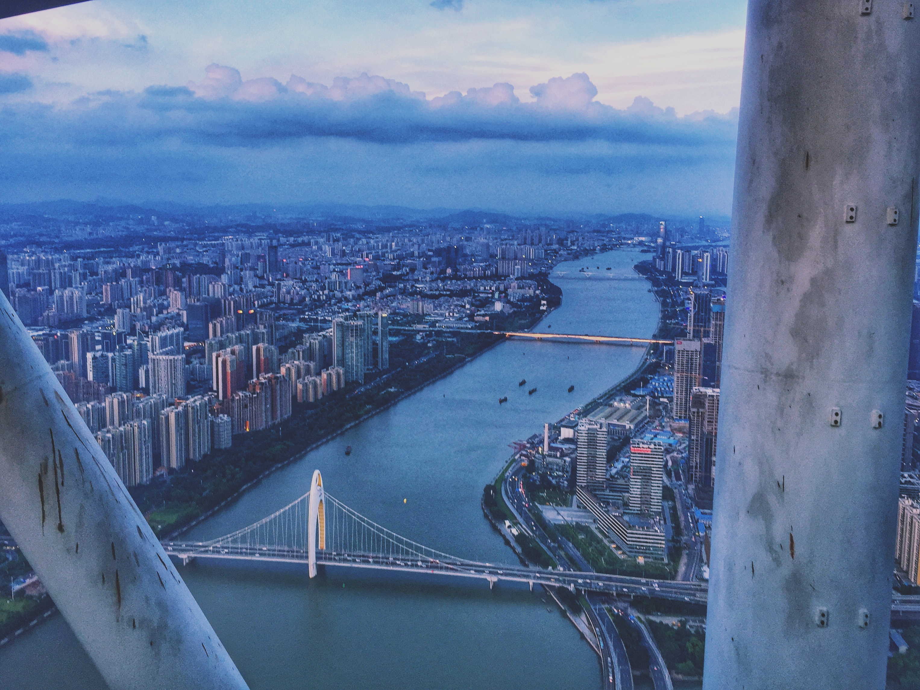 珠江 獵德橋